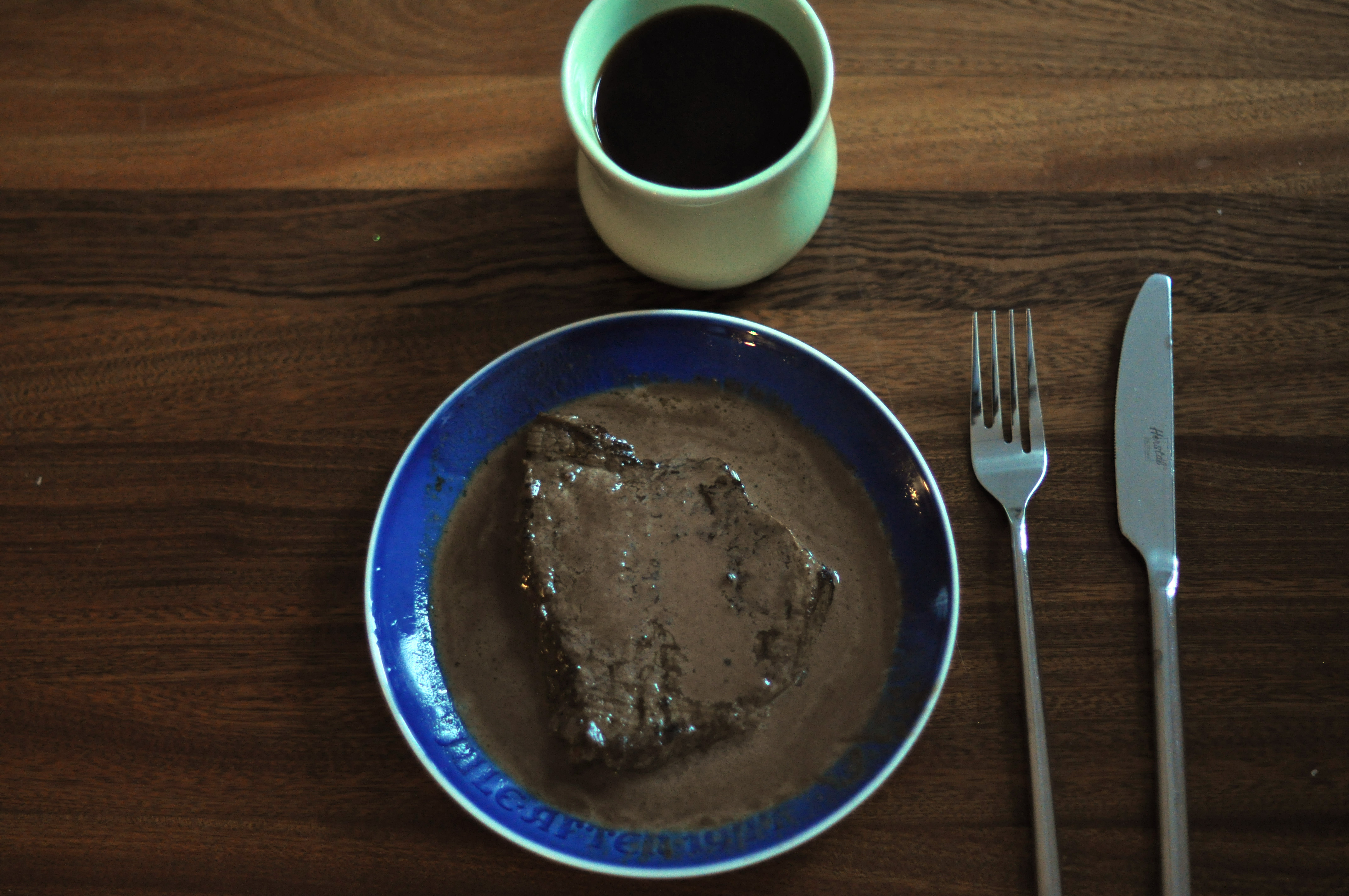 Kaffe og bøf med kaffesauce (Coffee and steak with coffee sauce)